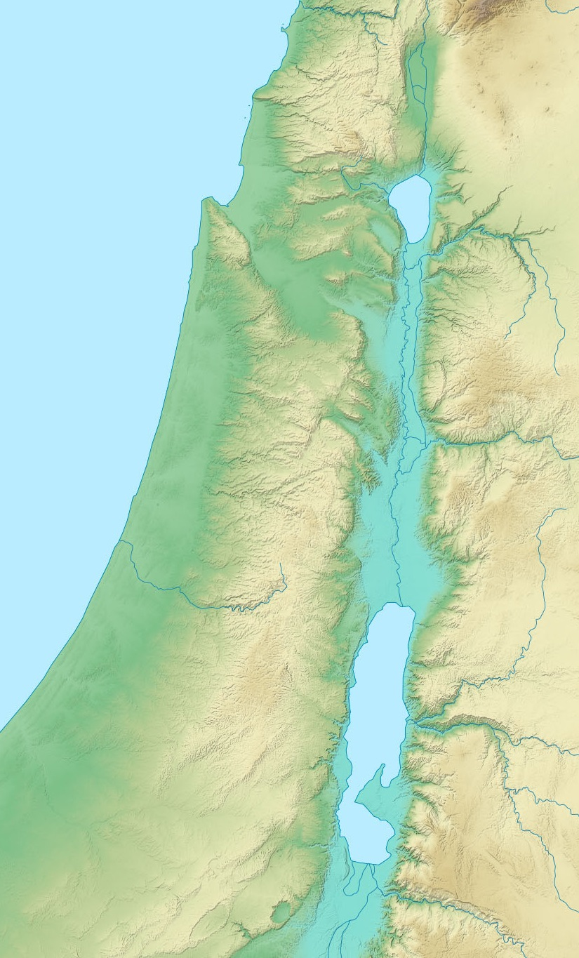 Topographic map of Palestine